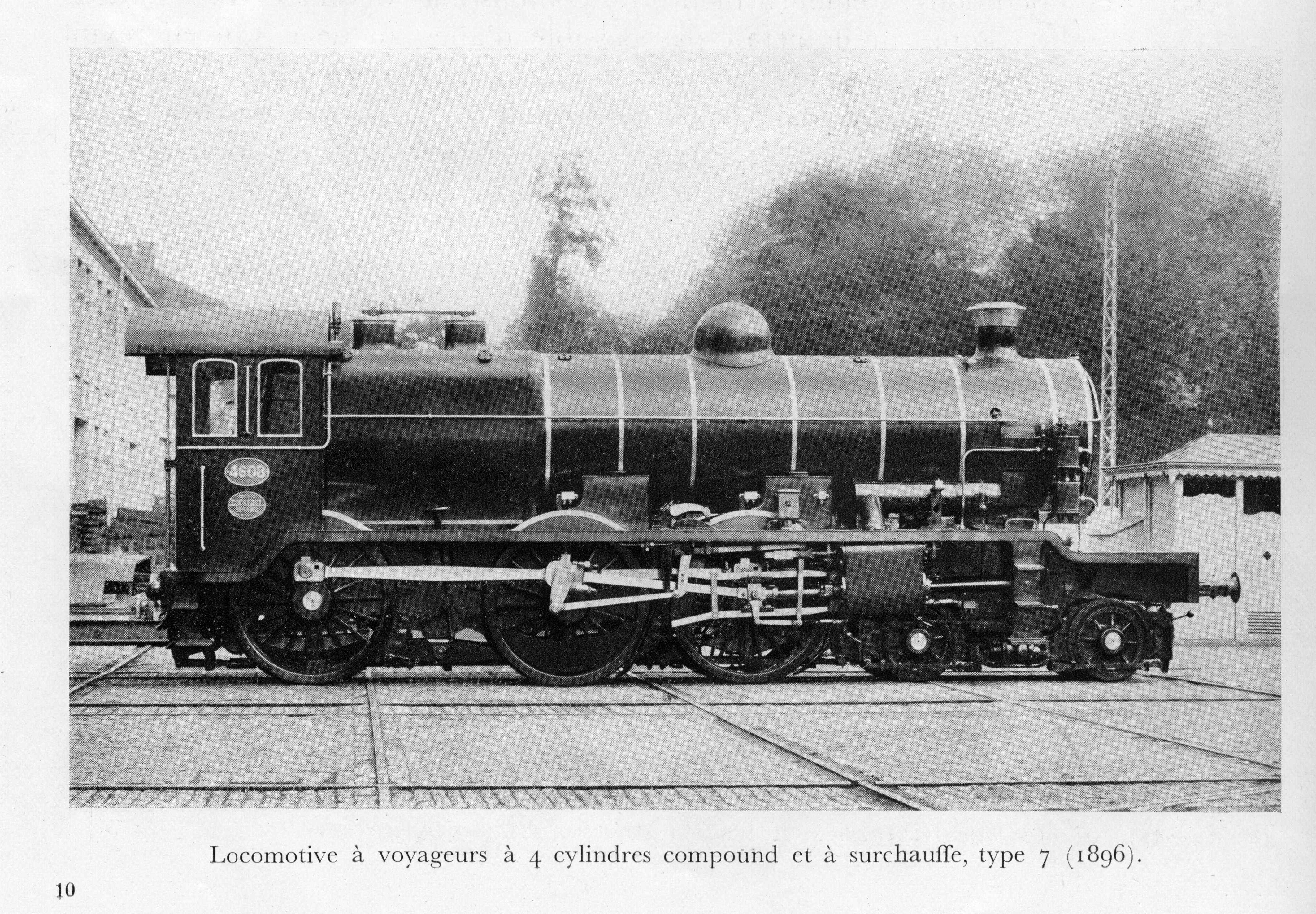 Steamloc type 7 in Belgium build in 1896